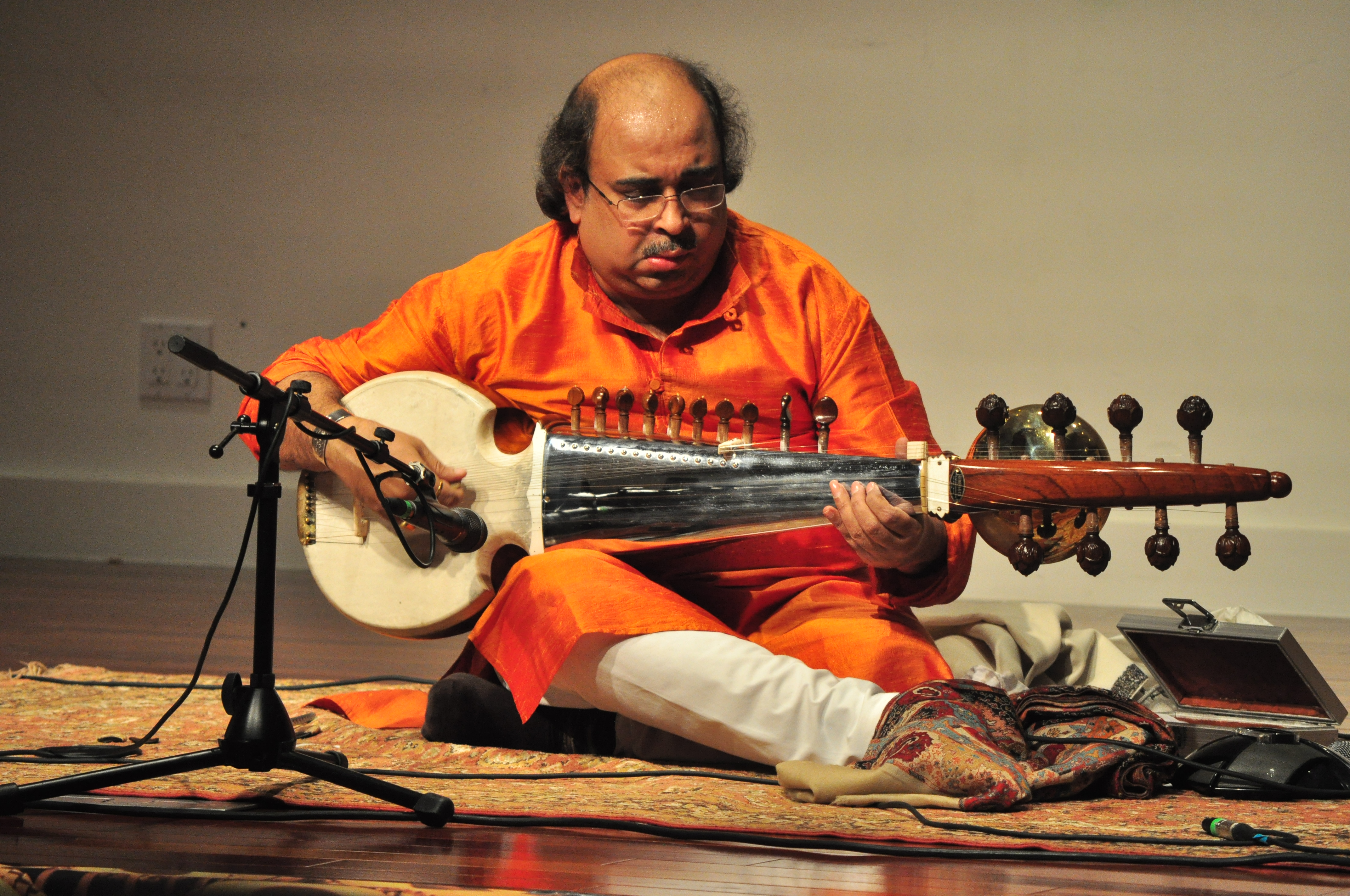 Sarodist Pandit Tejendra Narayan Majumdar performing at Eastside Baha'i Center, Bellevue, Washington, October 14, 2014. Concert presented by the Anindo Chatterjee Institute of Tabla and University of Washington Bothell SPICMACAY.